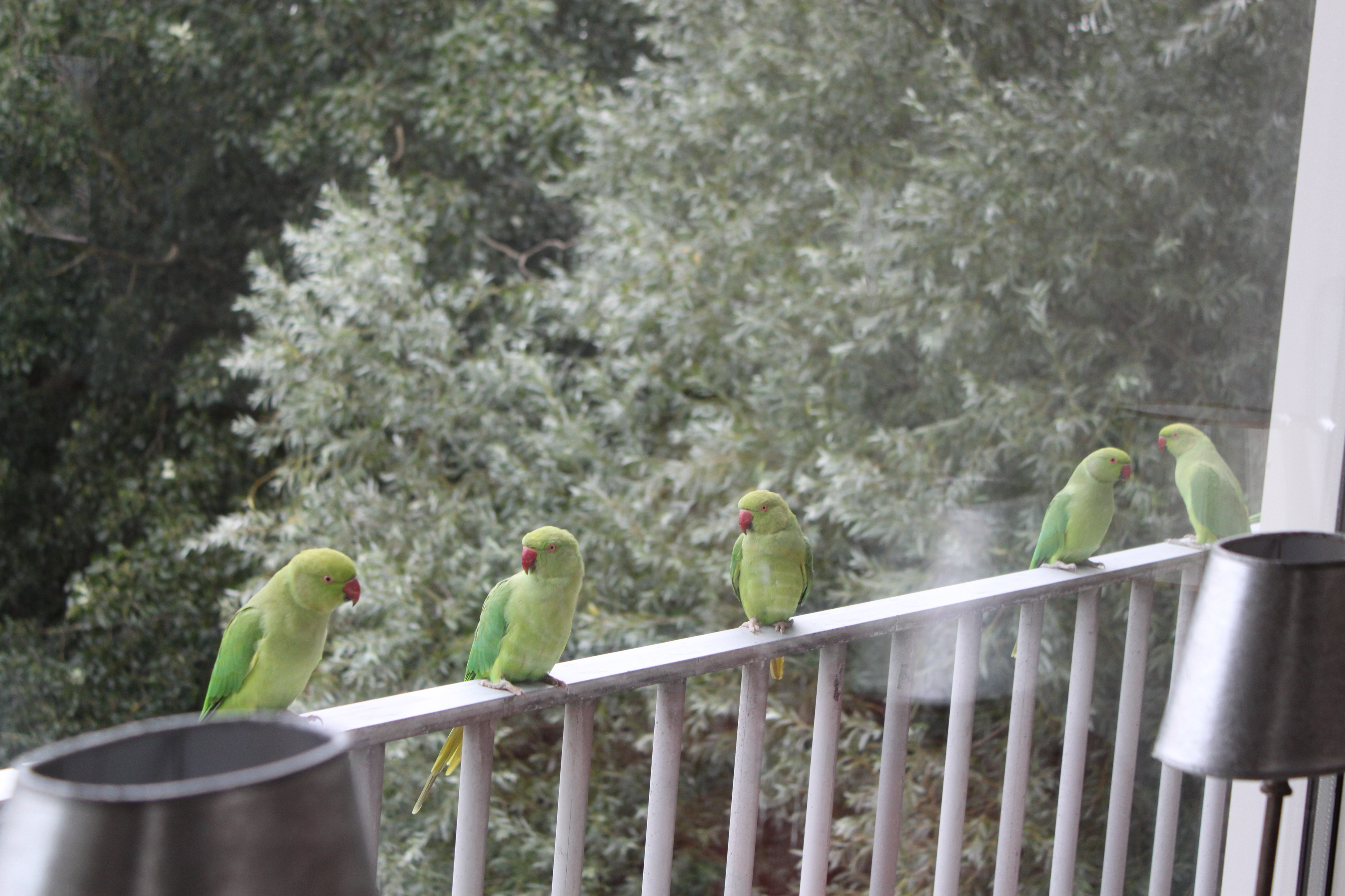 Rose-ringed_Parakeets on a balcony railing in Oegstgeest, The Netherlands